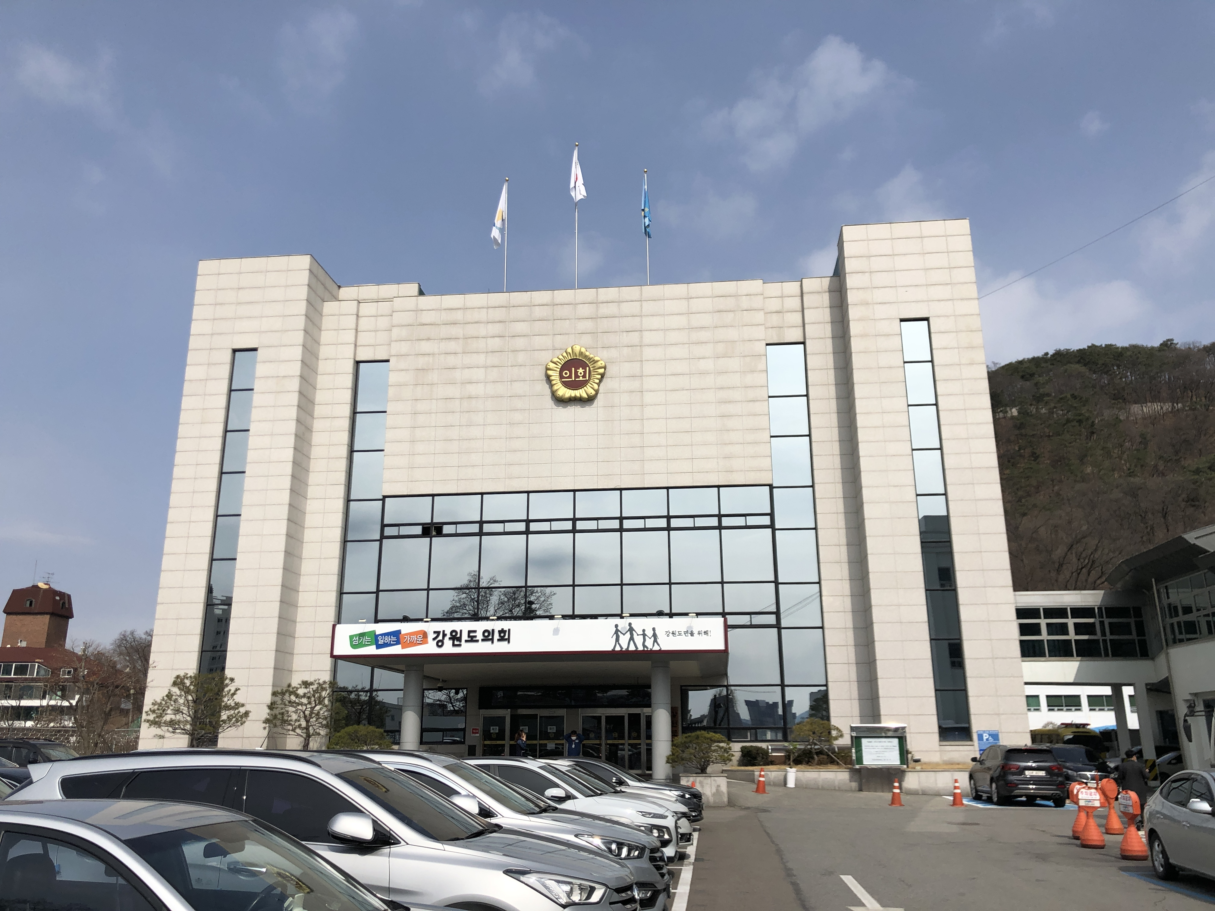 Gangwon Provincial Government Office, March 12, 2020